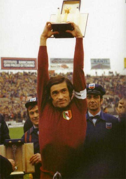 Italian footballer Paolo Pulici with Torino in 1976, awared by Chevron Corporation as Serie A 1975-76 top scorer.